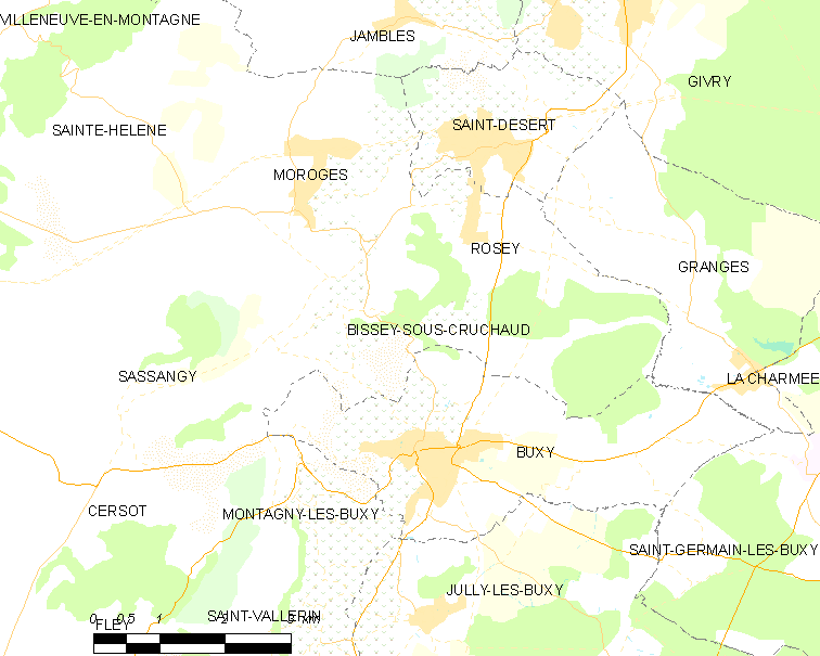 Map of French municipality